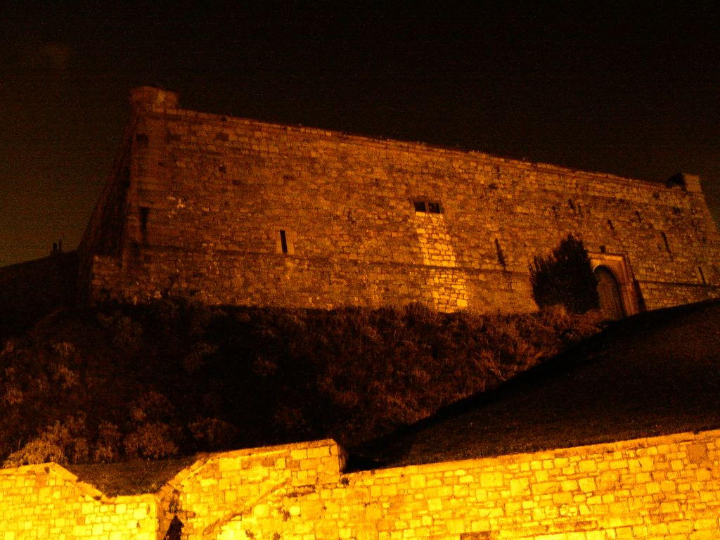 The Citadel, at night Taken 2004/12/16, by Benjamin Richard Wheatley